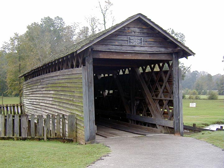 Front of the Coldwater Creek Covered Bridge, located in a park in Oxford, Alabama, United States. Built in 1845, it is listed on the National Register of Historic Places.